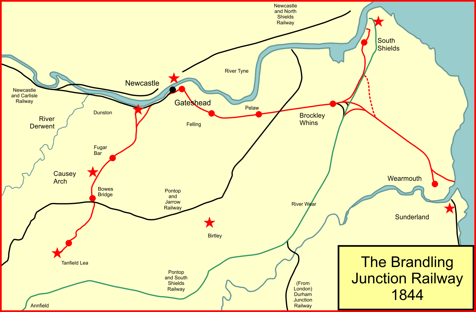 System map of the Brandling Junction Railway, County Durham, England